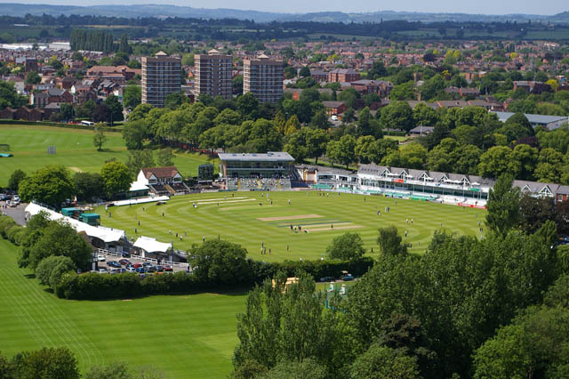 New Road from Worcester Cathedral tower